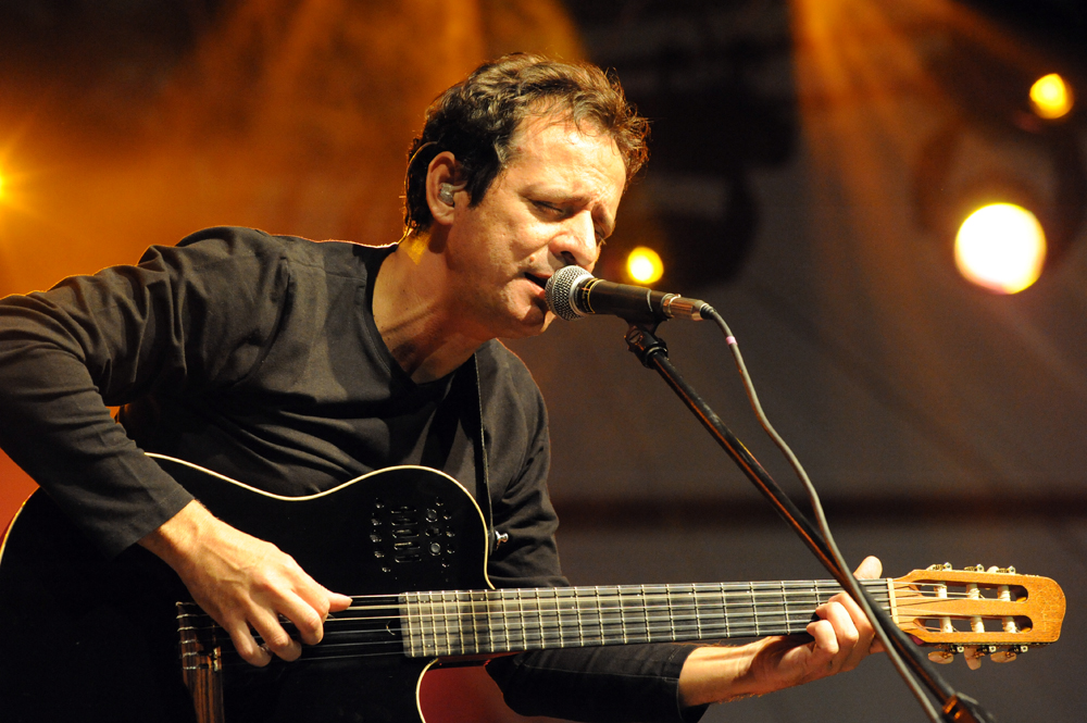 Brazilian singer Marcio Faraco performing in Warszawa, Poland during the 5th Cross Culture Festival